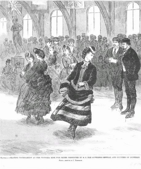 Skating Tournament at the Victoria Rink for Prizes Presented by H.E. the Gov. Gen. & Countess of Dufferin [Montreal].